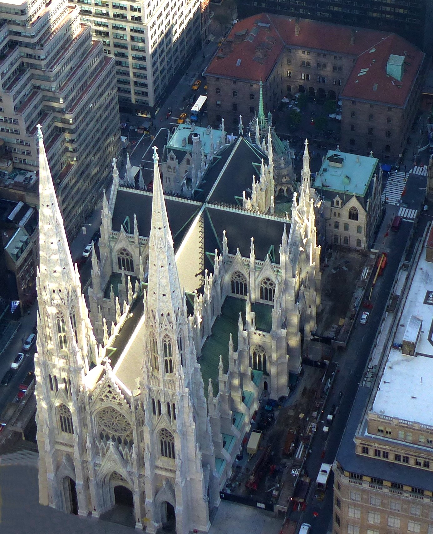 NYC - Top of the Rock - view of St. Patrick's Cathedral